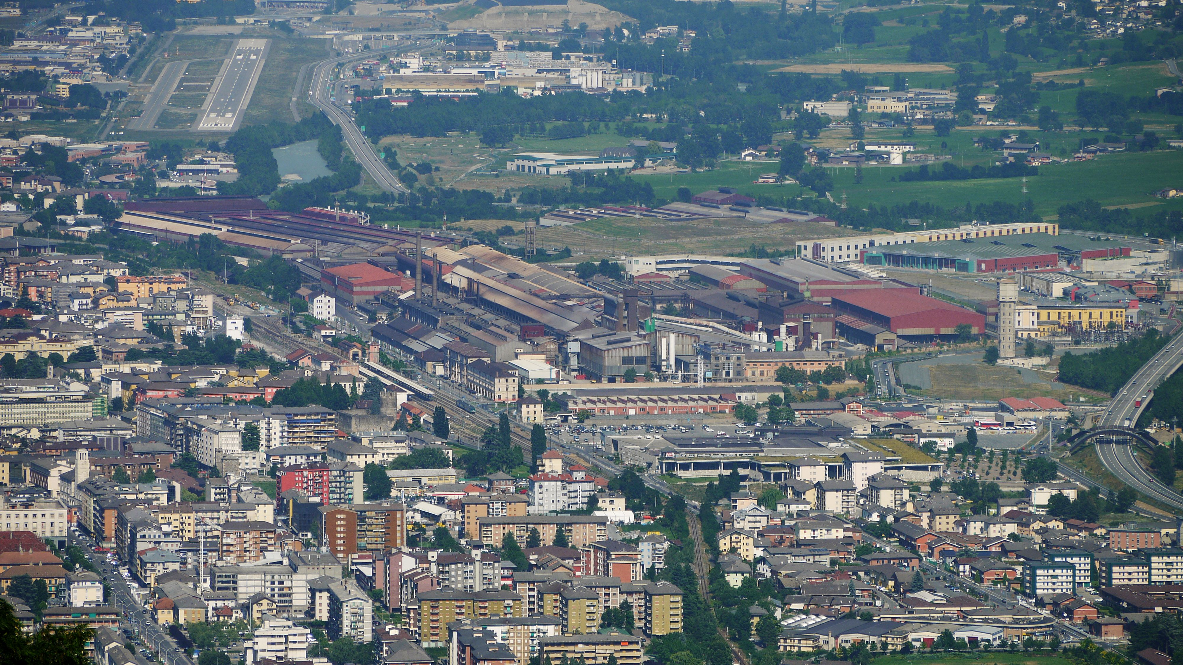 Cogne steel mill in Aosta, Italy